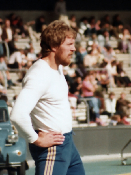 Guido Kratschmer (Decathlon) at the «International Track and Field Sports Meeting» in Cologne, 1981